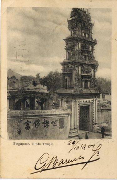 A postcard bearing a photograph of Sri Mariamman Temple in Singapore. The caption of the photograph reads: "Singapore. Hindu Temple."